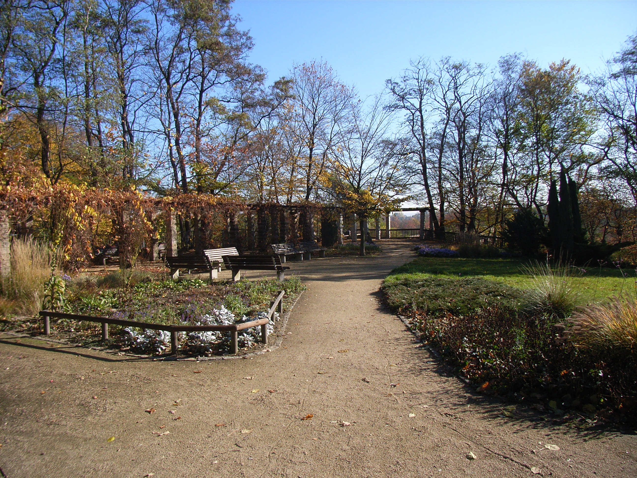 park "Friedenshöhe" in Görlitz, Saxony